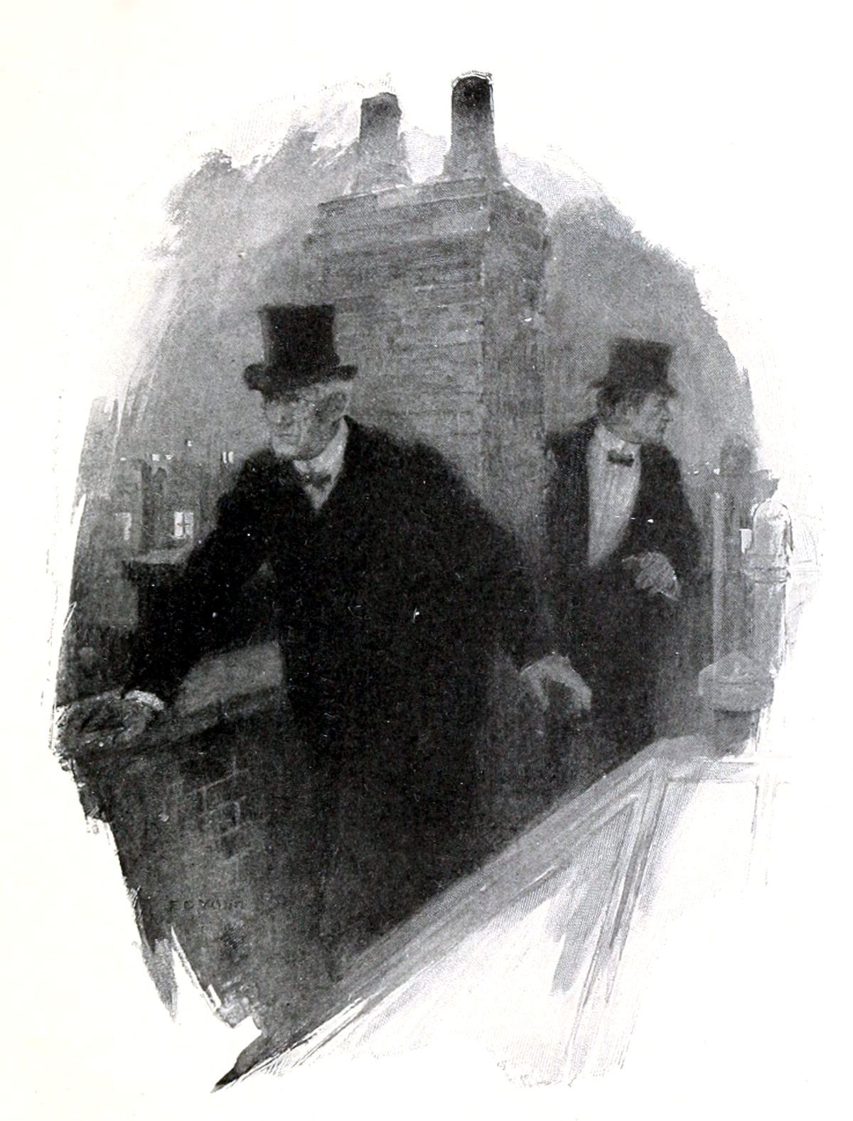 Illustrations from the book Raffles (Charles Scribner's sons, 1906), written by E. W. Hornung and illustrated by F. C. Yohn